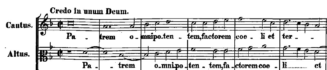 The Credo Motif from Palestrina's Missa Brevis